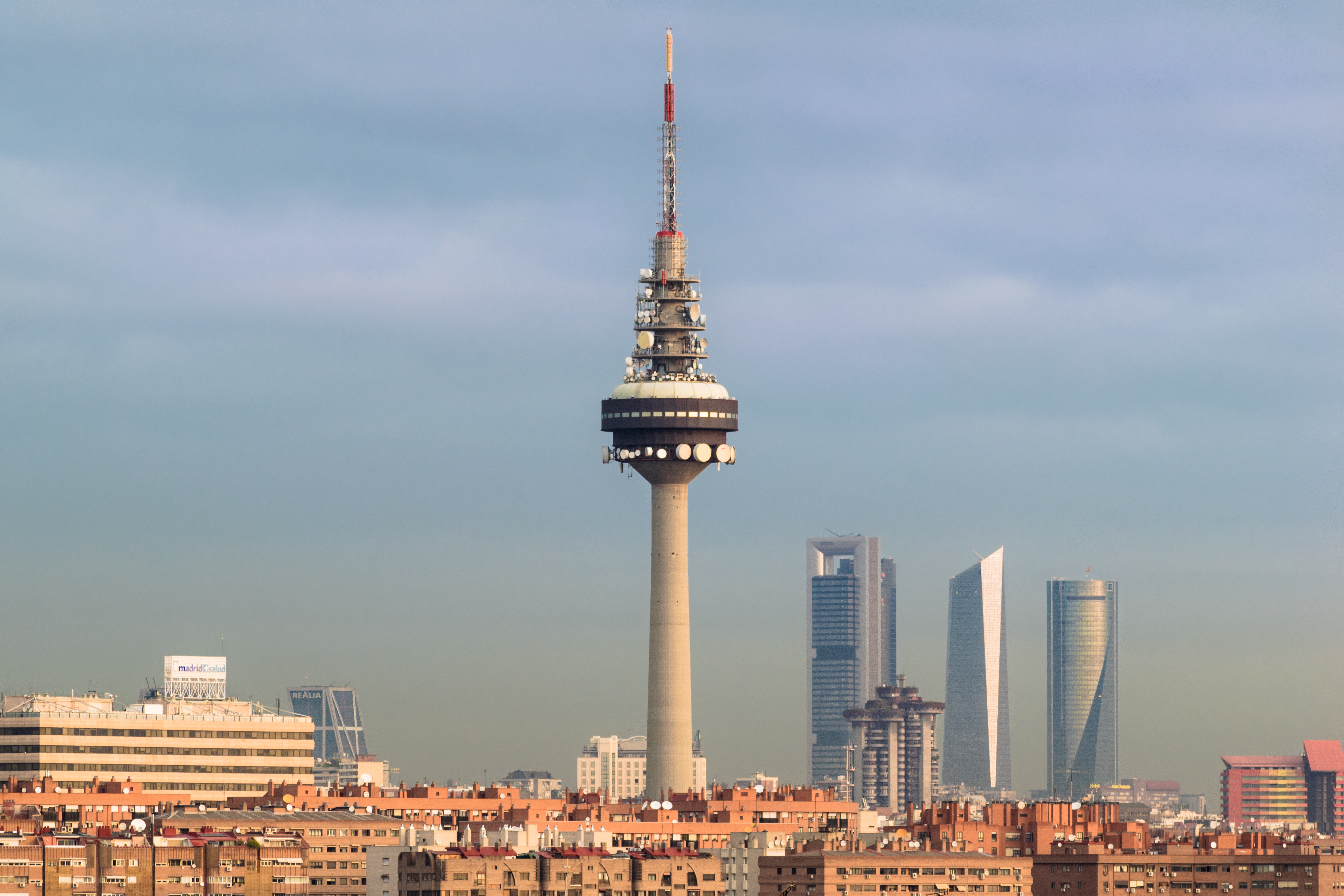 Perspective has it. The smallest ones become the highest.